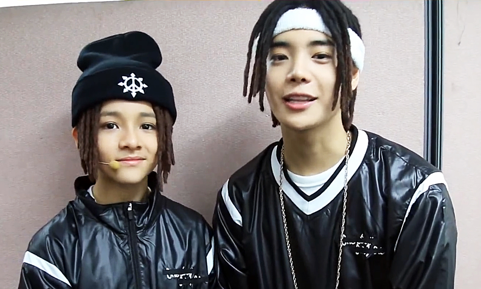 1PUNCH 멤버들이 전하는 설날 메세지! 멜론 가족 여러분 모두 새해 복 많이 받으세요♥ [K-POP Rare Clip] introduces various videos from artists in diverse genres including pop, indie, hip-hop, R&B, jazz. You can also meet a lot of contents like behind-the-scenes, special performances, and new releases. Unfortunately we don’t provide translation services for all of [K-POP Rare Clip] videos, 1theK will endeavor to introduce more various K-POP contents through [K-POP Rare Clip]. [K-POP Rare Clip]은 가요, 인디, 힙합, R&B, 재즈 등 다양한 아티스트들의 영상을 소개합니다. 스타들의 무대 뒷모습부터 특별한 라이브, 음반 발매 소식까지 다양한 컨텐츠도 만나볼 수 있습니다. 아쉽게도 [K-POP Rare Clip]의 모든 영상에 대한 자막을 제공할 수는 없지만, 1theK는 [K-POP Rare Clip]을 통해 더욱 다양한 K-POP 컨텐츠를 소개하기 위해 노력하겠습니다. ▶1theK FB : ▶1theK TW : ▶1theK G+